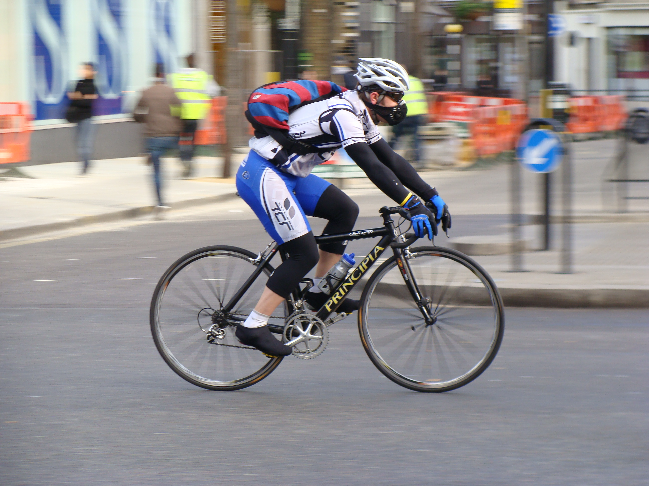 A commuter cyclist in the London morning rush hour, kitted out in specialist cycling gear